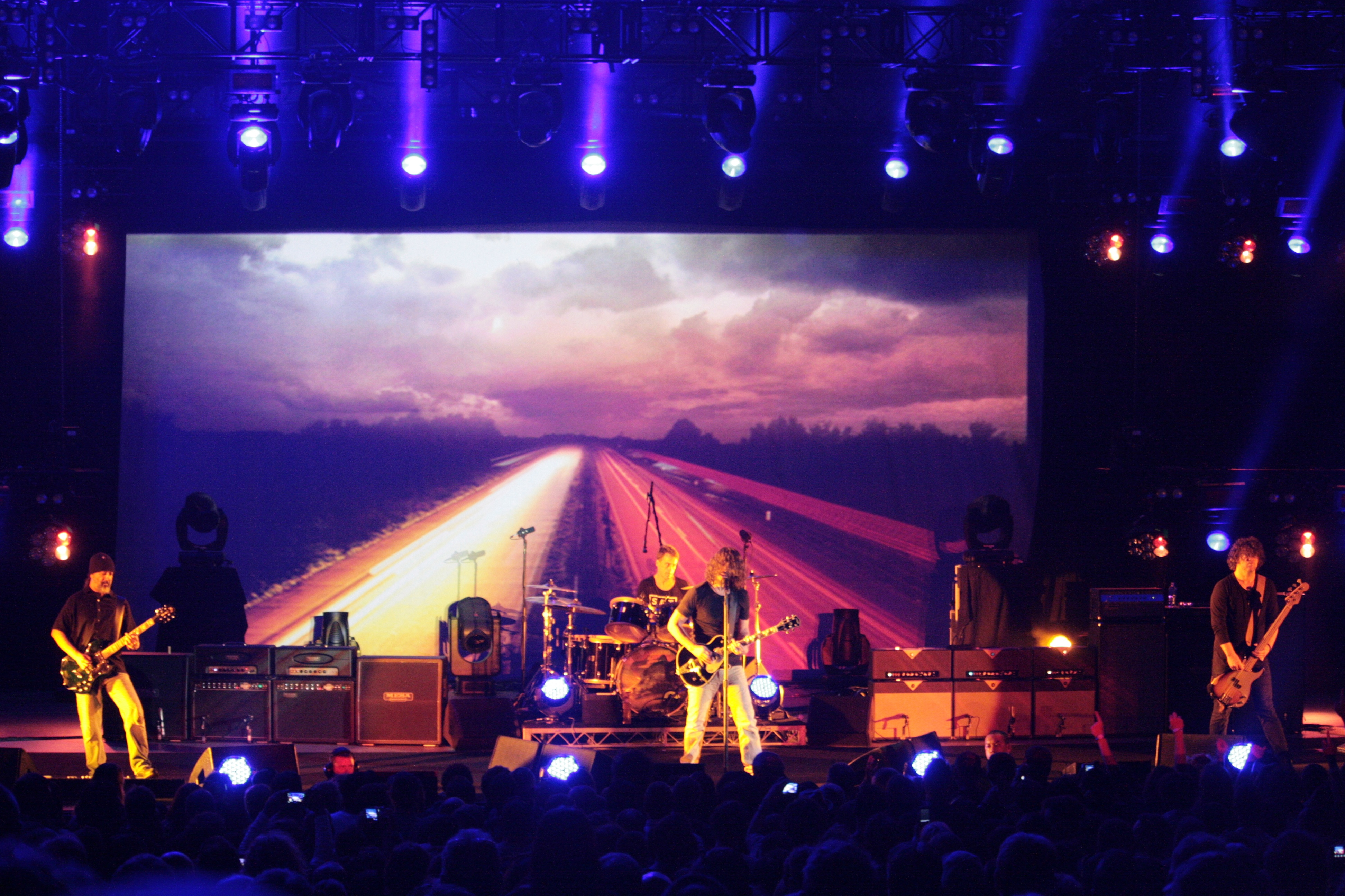 Soundgarden live at 2012